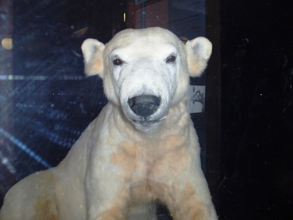 Stuffed Knut, the famous Berlin polar bear, on display in the lobby of the Naturkundemuseum in Berlin.